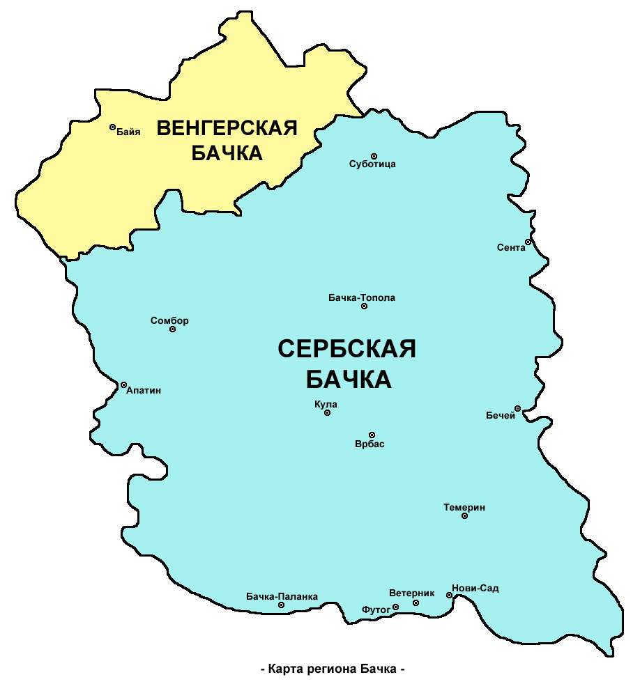 Map of Bačka region, in russian